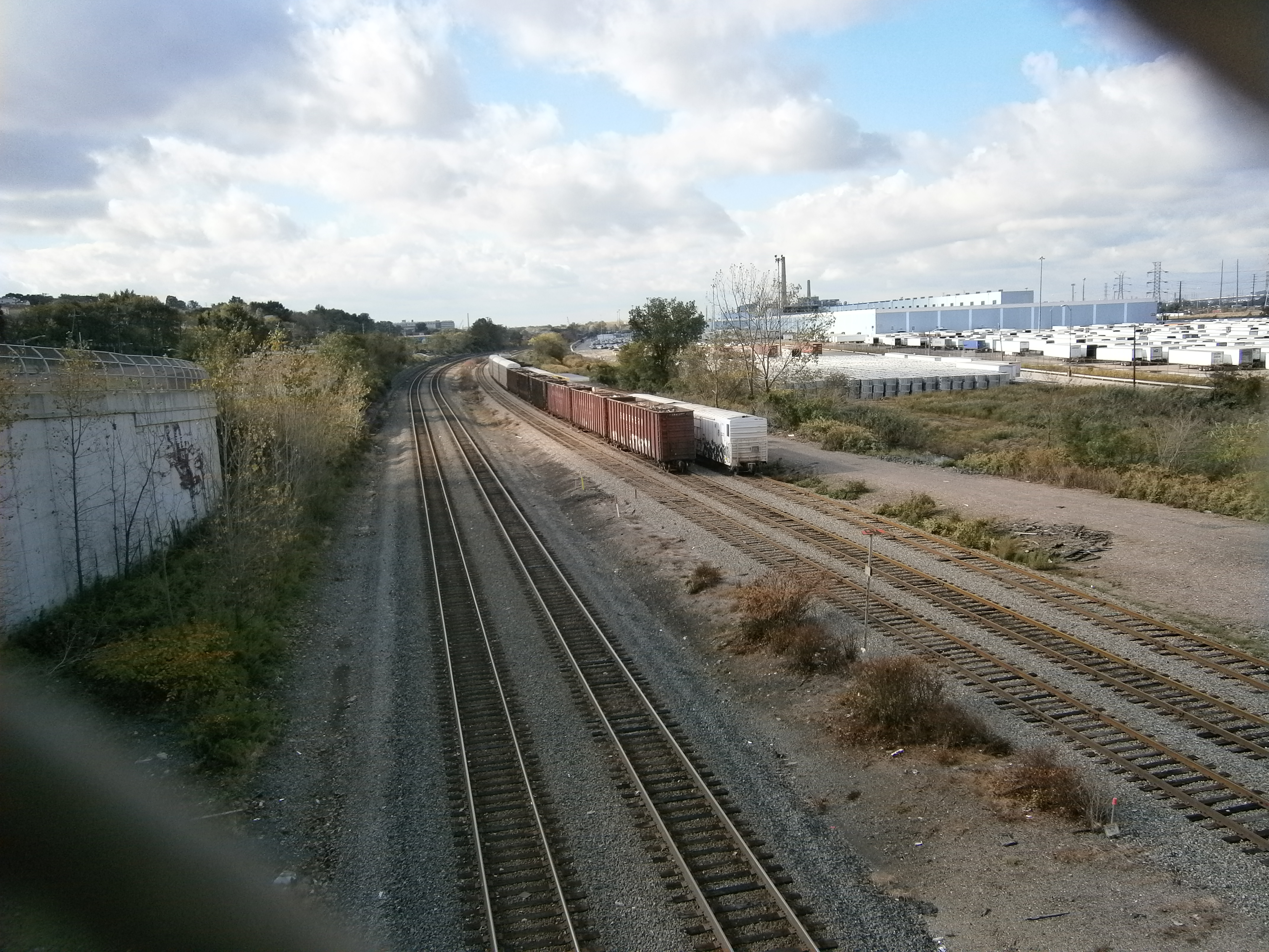 The Northern Running Track (left) at the foot of Bergen Hill in Jersey City runs along the right-of-way of the former Erie Railroad Northern Branch and Hudson Connecting Railway, now NYSW